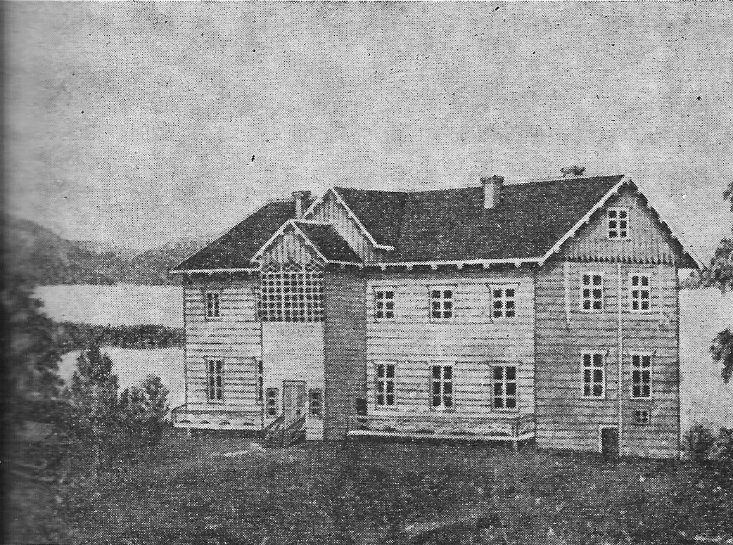 A sanatorium in Rantapuisto, Jyväskylä, Finland. Build in 1860´s and destroyed soon in the same decade. Drawner unknown. Tommila, s. 59.